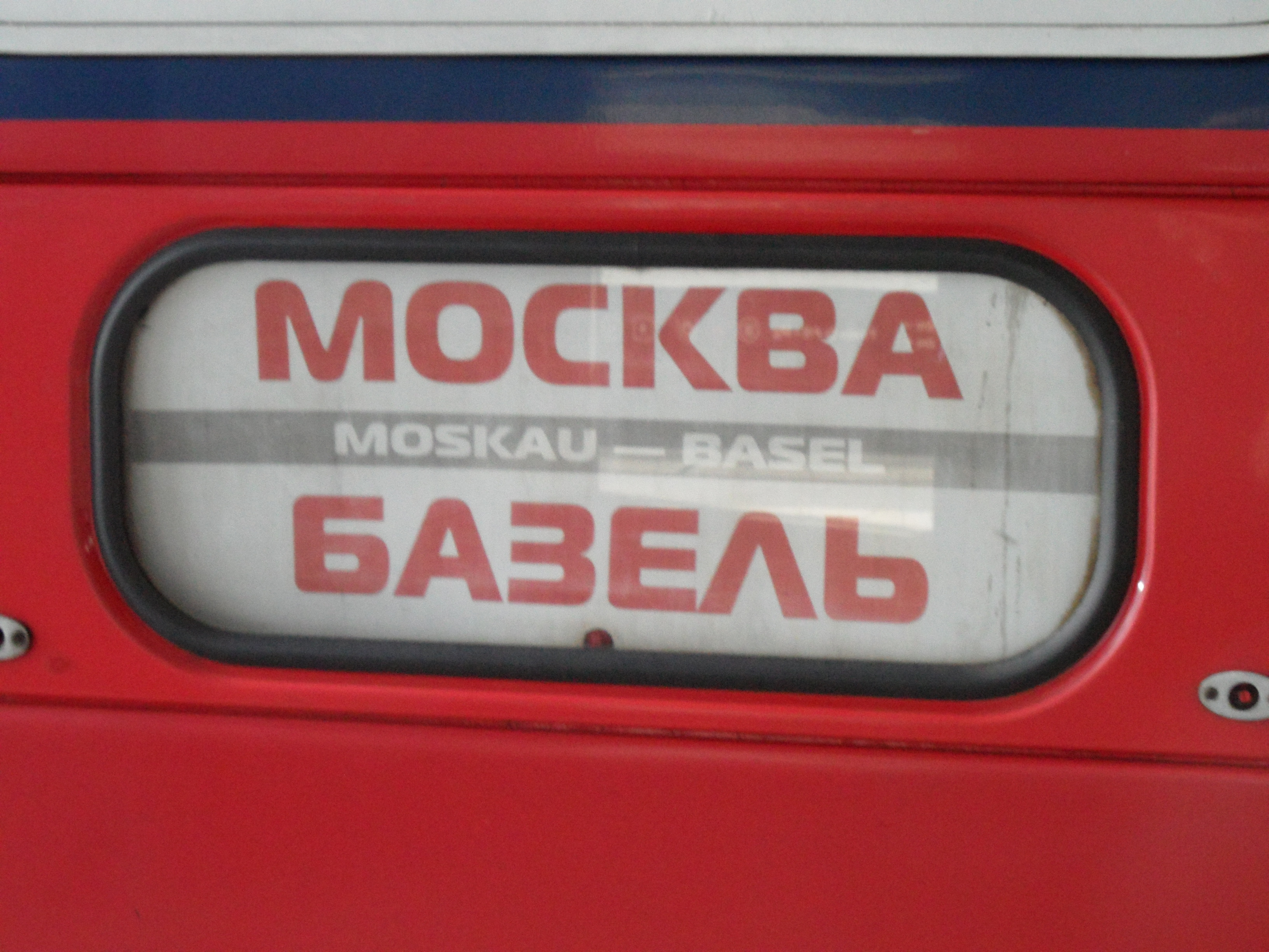 A train car of the Russian Railways in Basel, Switzerland, June 2010. Until 2013, there existed a direct rail connection from Basel to Moscow, a rail car leaving Basel with the train to Copenhagen at 18:04.